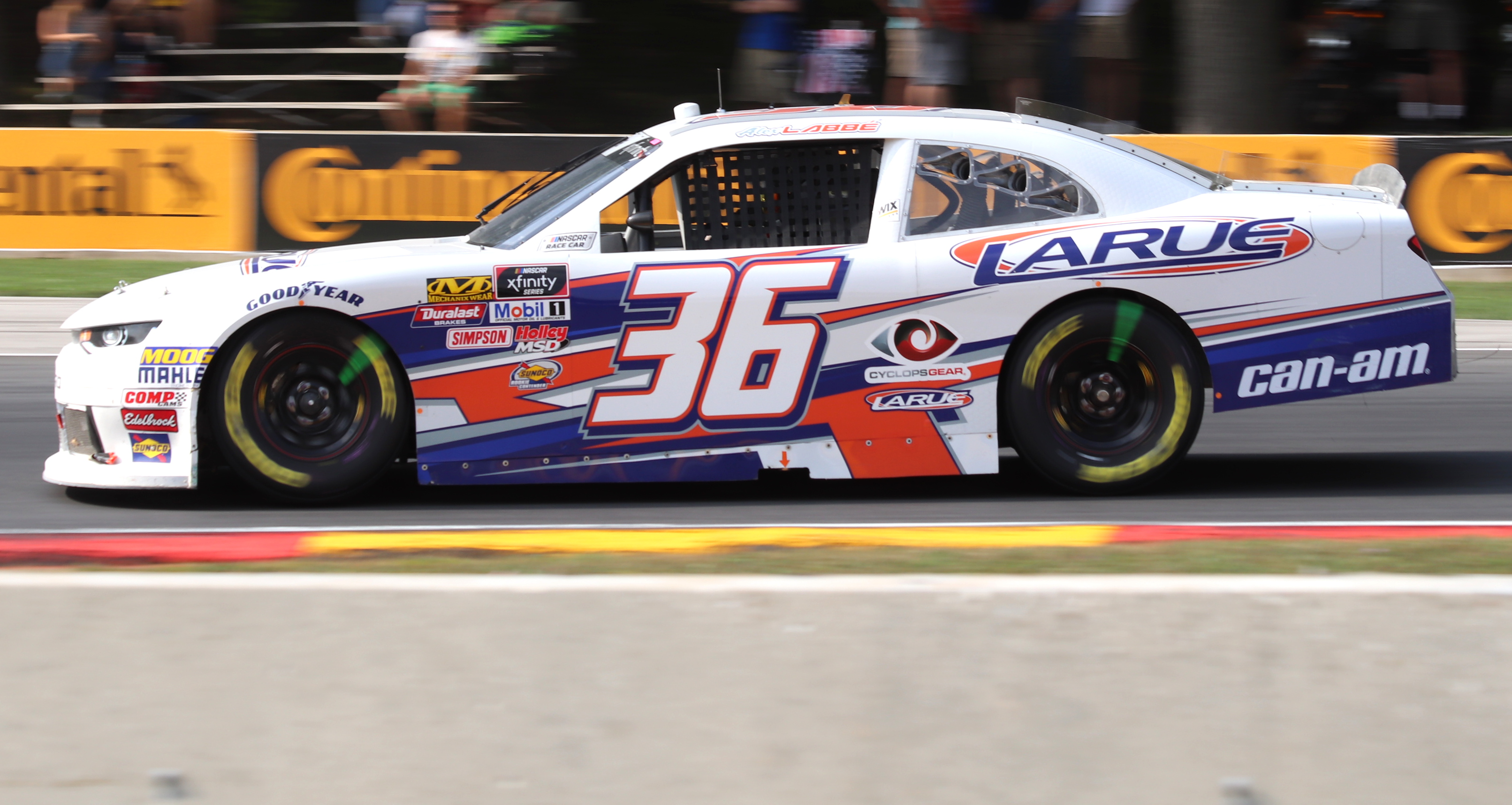 The Chevrolet Camaro of Alex Labbe at the NASCAR Xfinity Series Johnsonville 180.